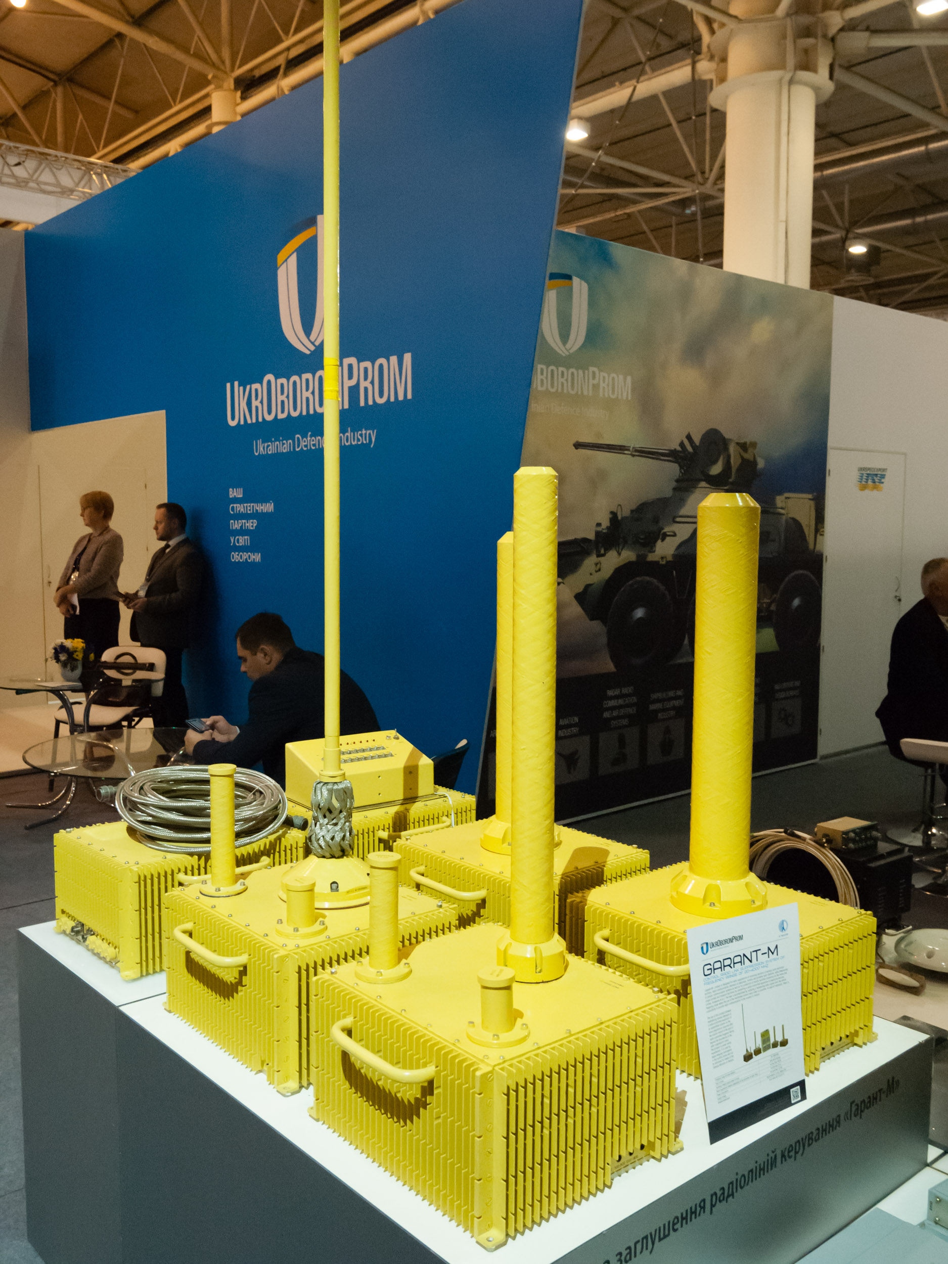 Garant-M (Ukraine) jamming station, 'Zbroya ta Bezpeka' military fair, Kyiv, Ukraine, 2018